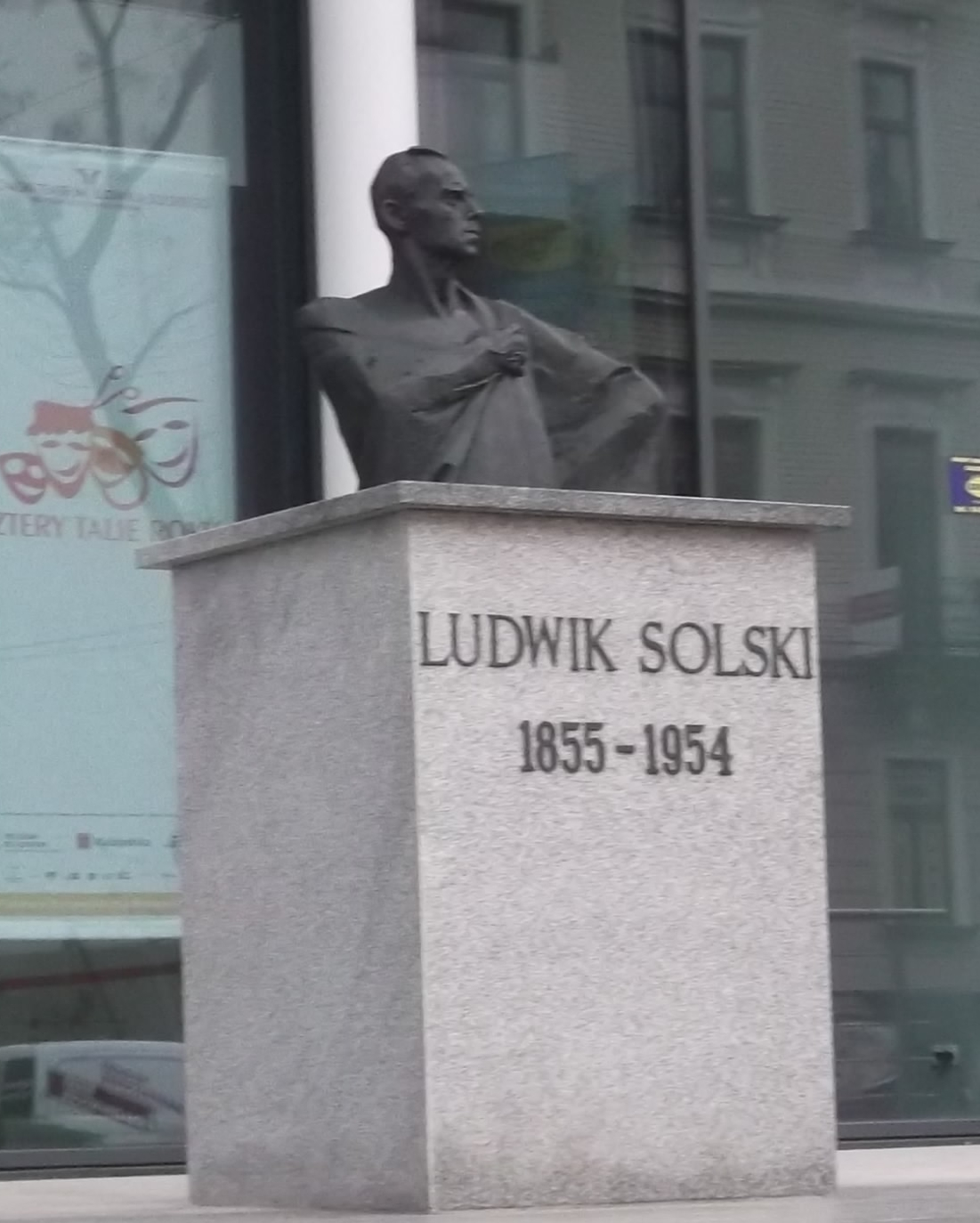 Monument of Louis Solski in Tarnow